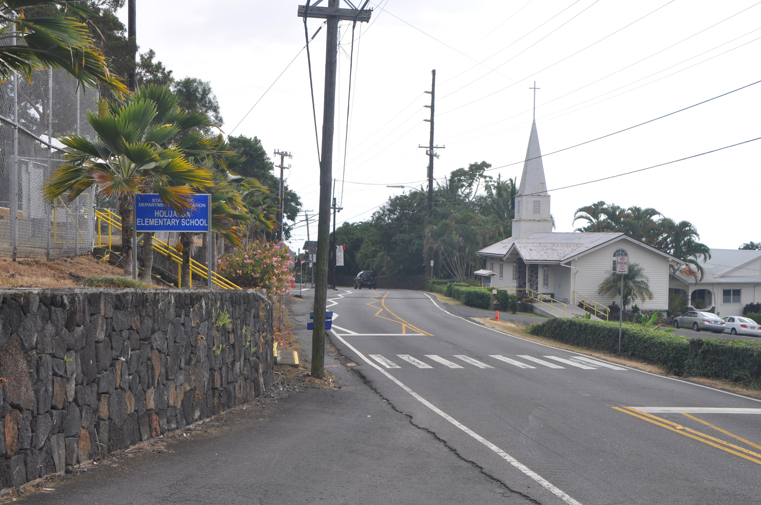 Holualoa, Hawaii, USA, on Hawaii Route 180 - School and Church